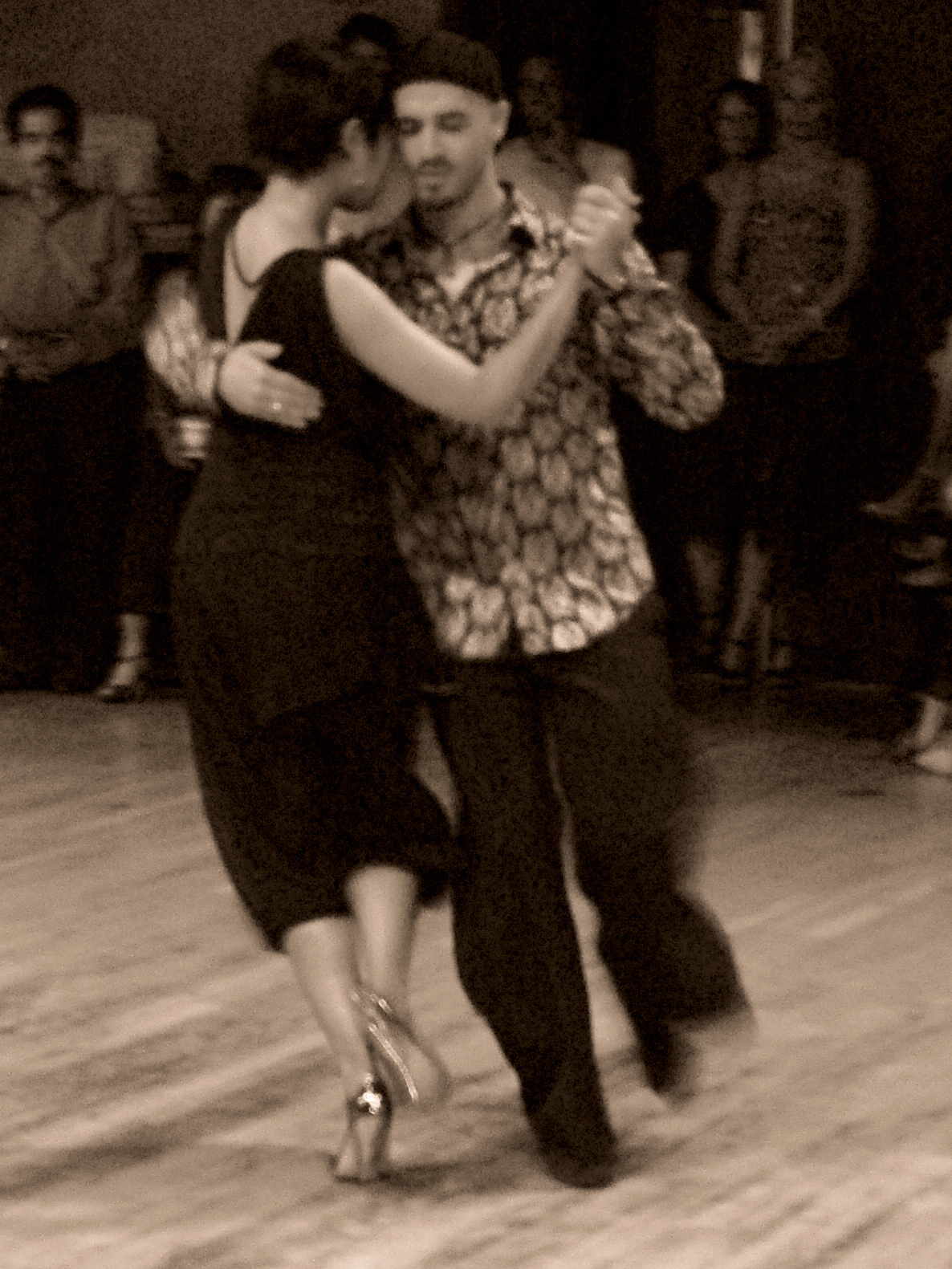 Homer and Christina Ladas dancing tango in Santa Cruz, California, at 418 front Street}